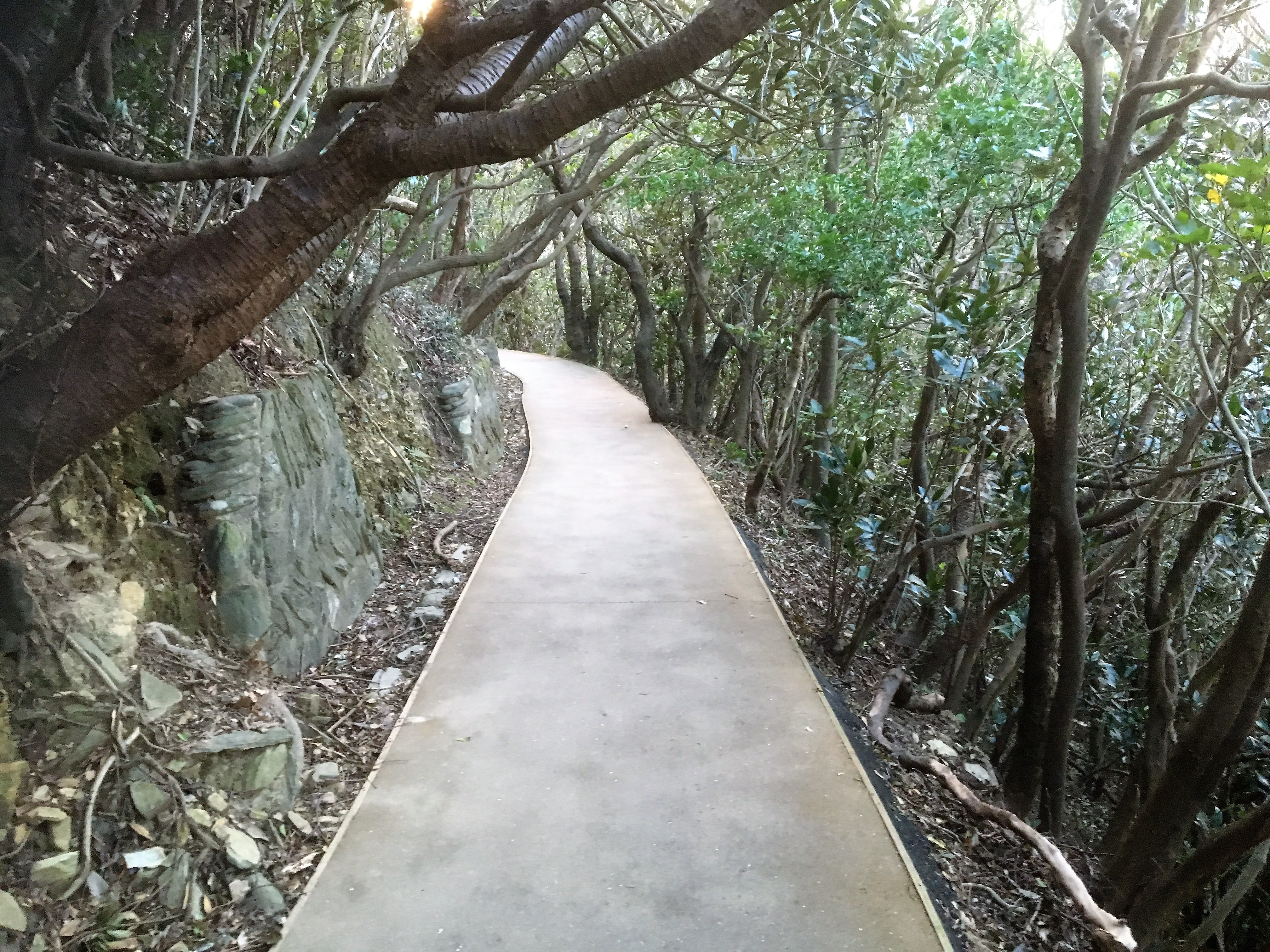 aisle Sada-Cape battery, GEIYO fortress, Ehime-pref, JAPAN